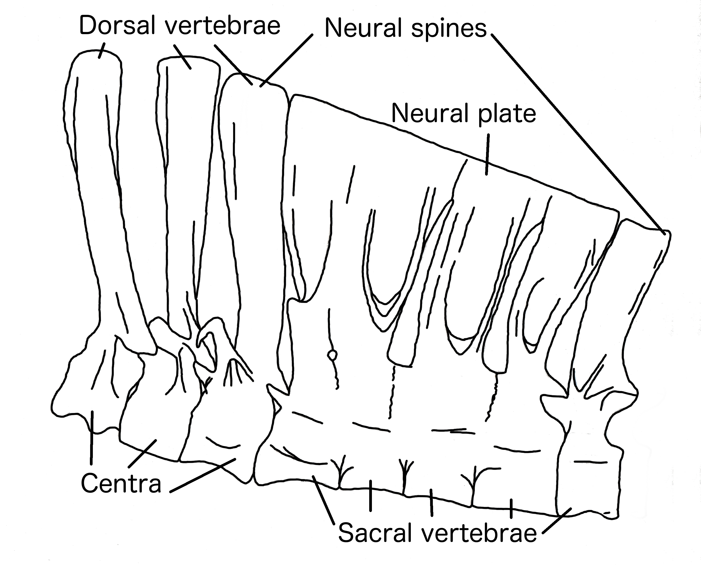 English labelled diagram of the posterior dorsal and sacral vertebrae of Deinocheirus mirificus that form the hump or sail.